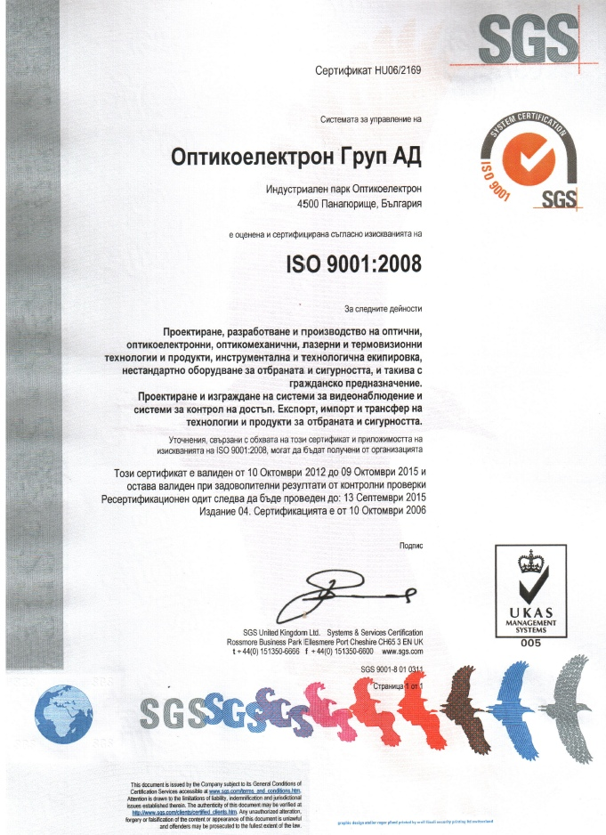 Сертификат ISO 9001